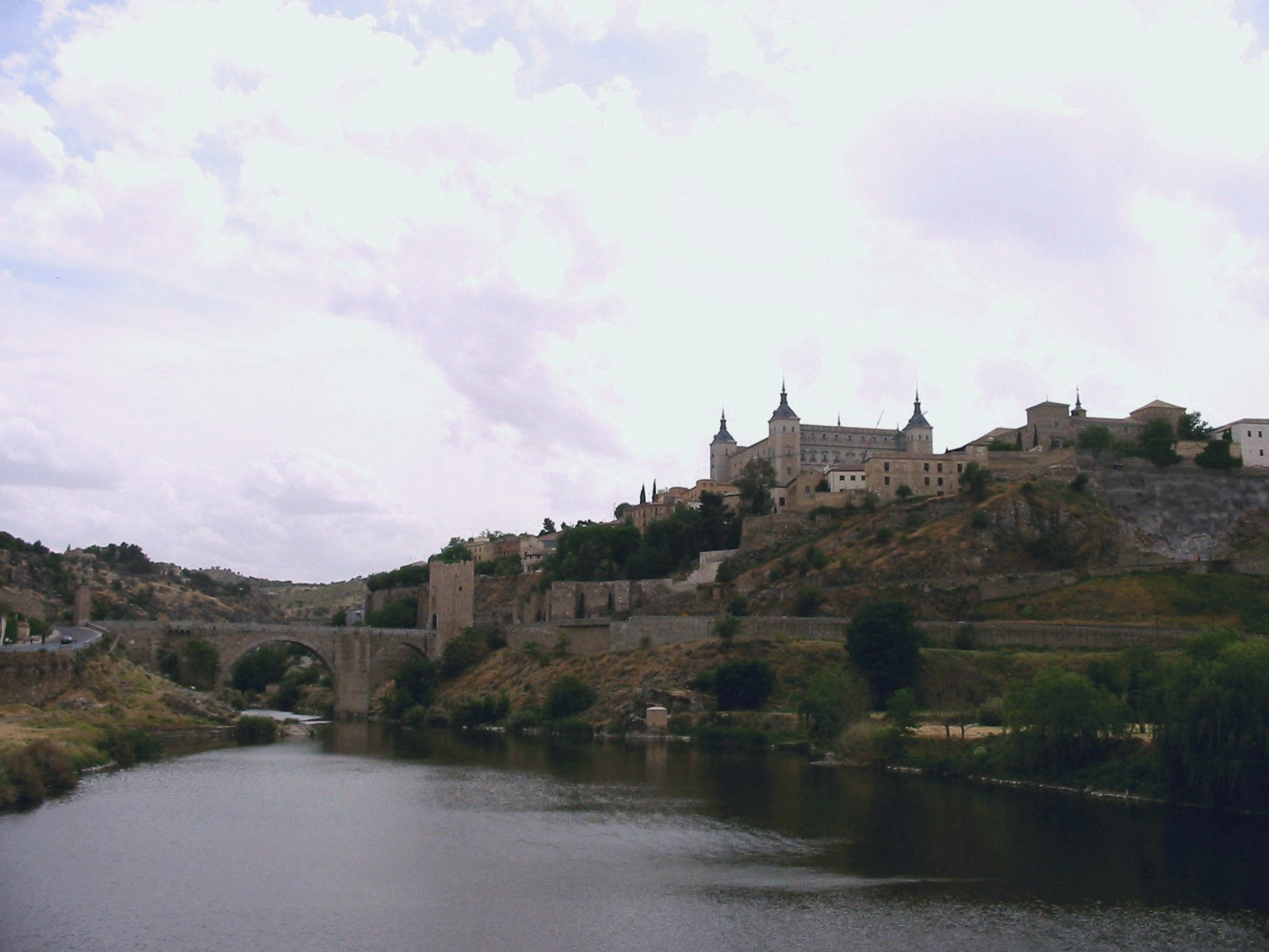 The Alcazar of Toledo and a bridge as seen from across the river Tagus.IMG_2221